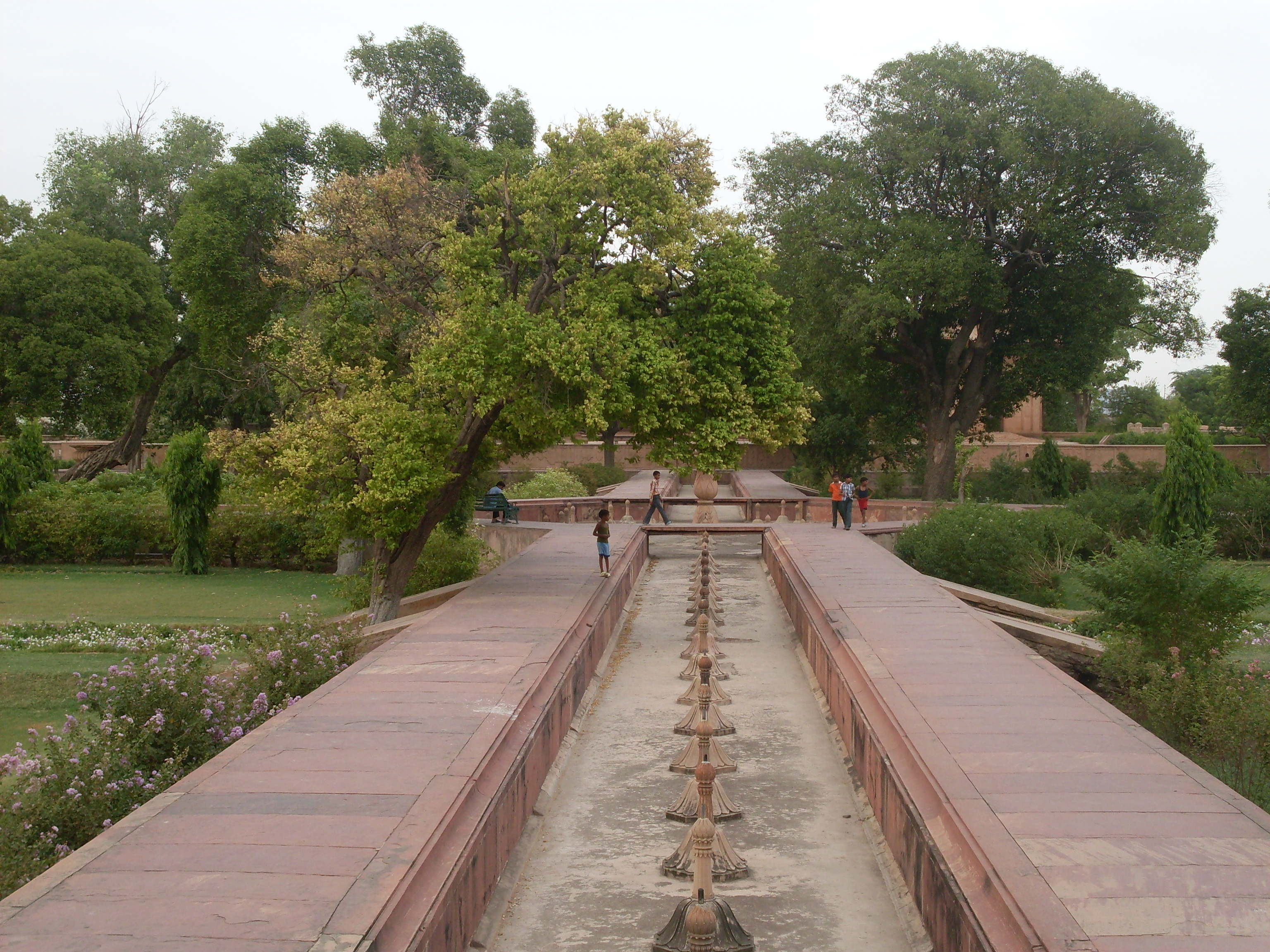 Fountains at Deeg Palace in Irani Charbagh pattern